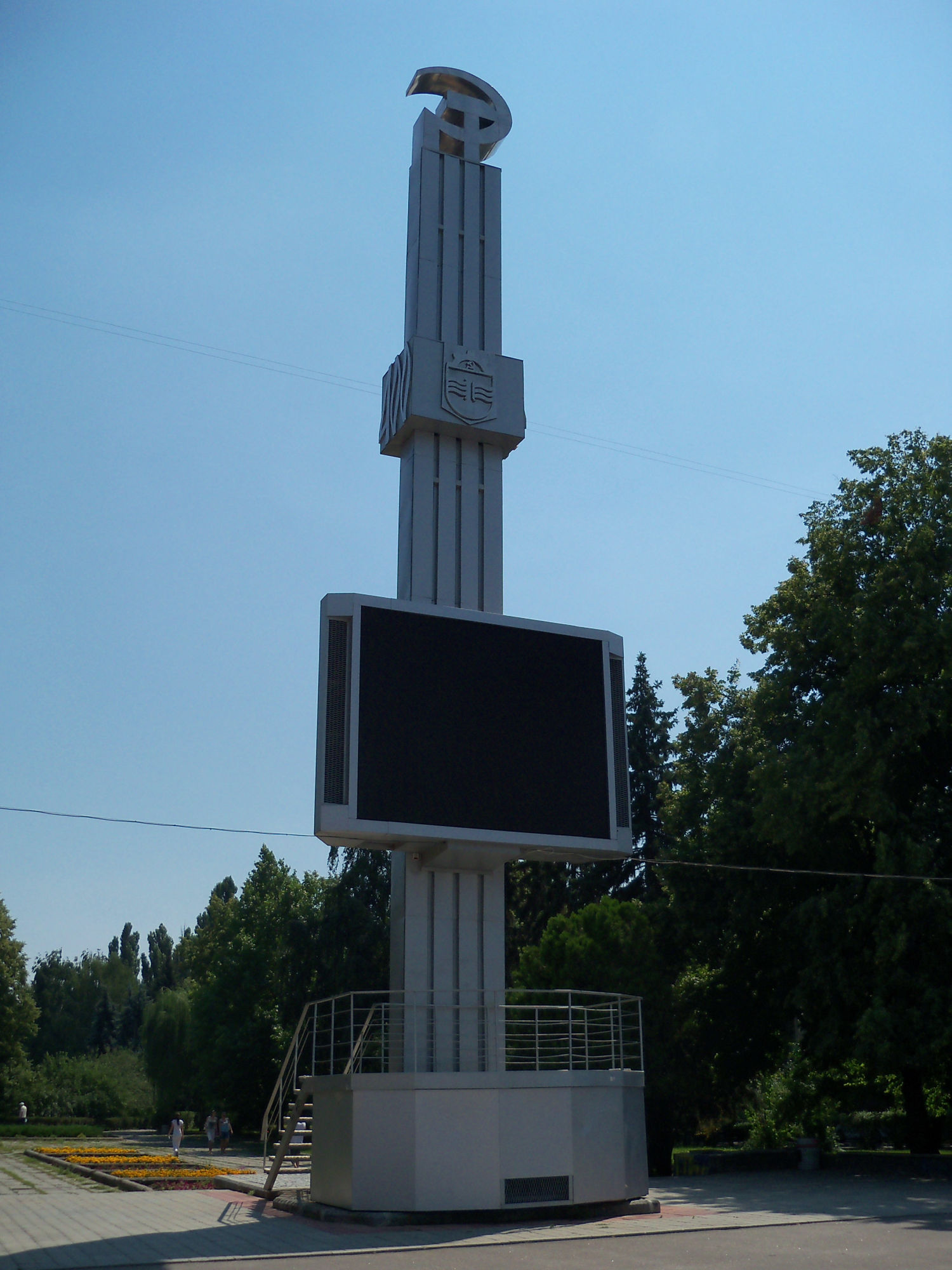 Stella in honor of the 400th anniversary of Kremenchuk